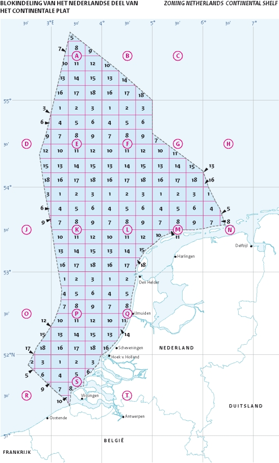 Blocks in the Dutch Exclusive Economic Zone of the Northsea